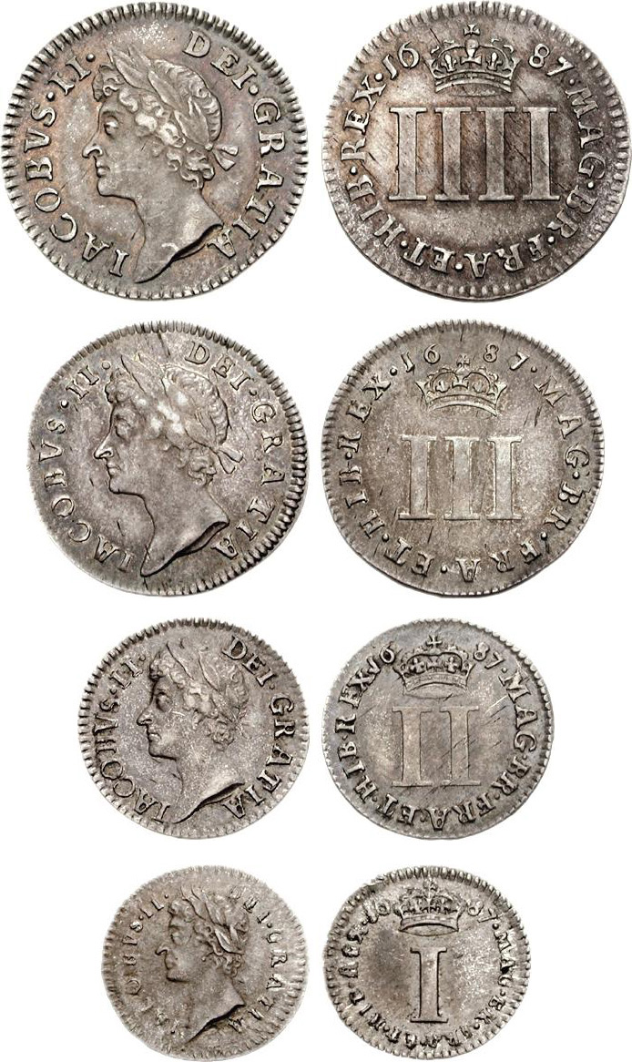 STUART (Restored). James II of England. 1685-1688. Maundy set. Dated 1687. Includes 1d, 2d, 3d, 4d. SCBC 3392. All coins VF.